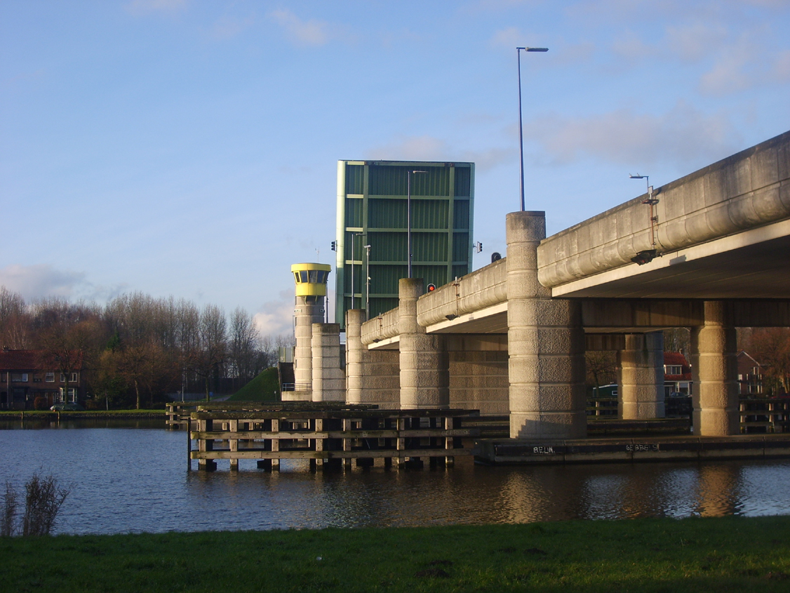 A photograph of the Den Uylbridge in Zaandam, the Netherlands.